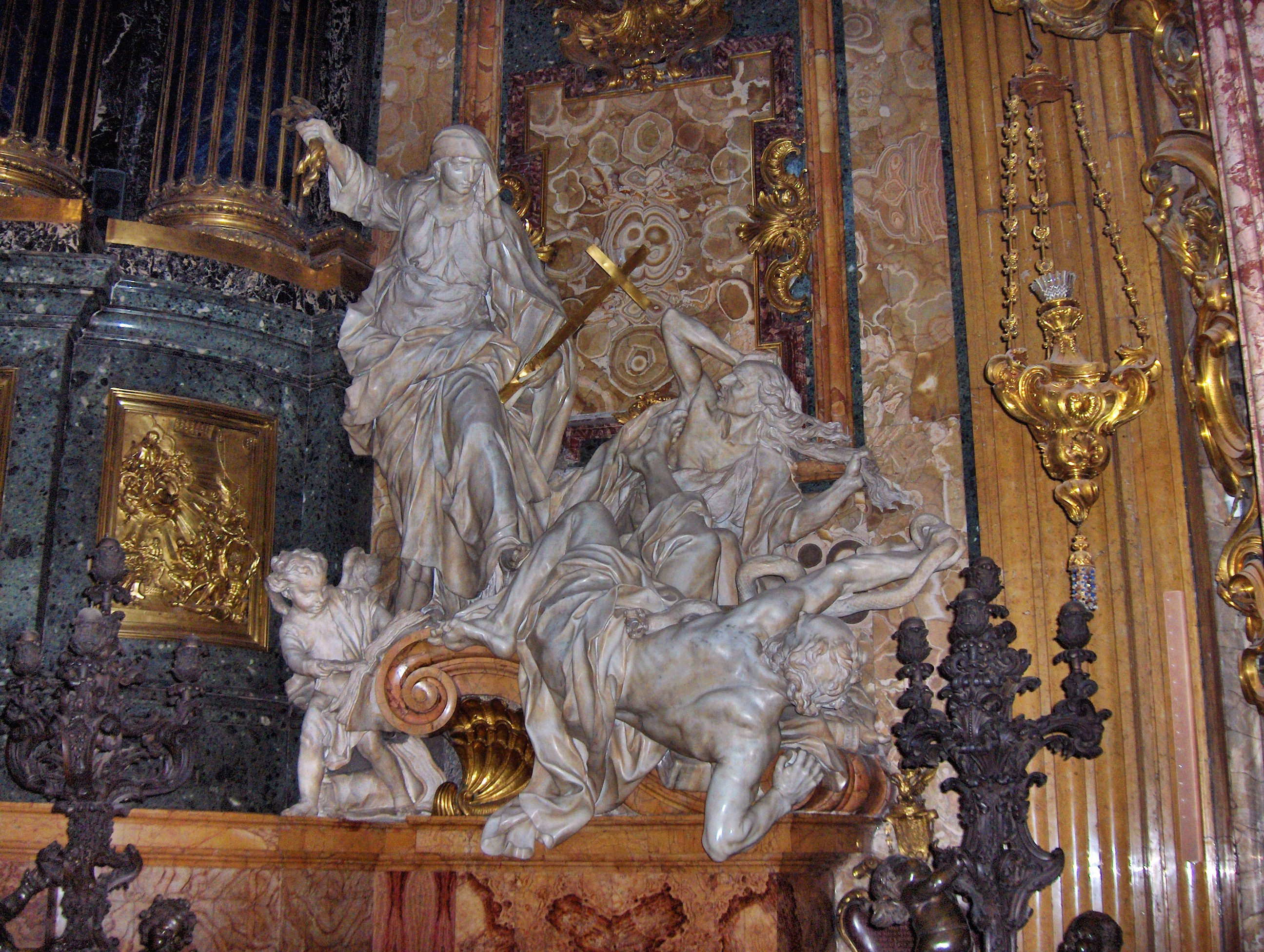 Altar of the chapel S. Ignatius; "Religion Overthrowing Heresy and Hatred" by Pierre Legros the Younger; in the church Il Gesù, Rome.